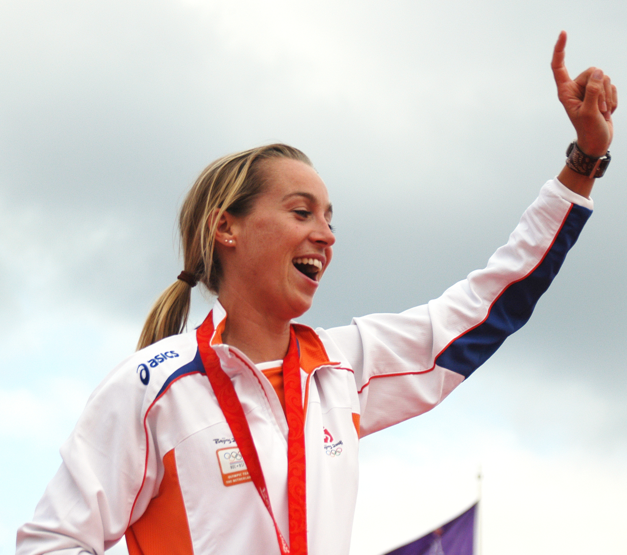 Marcelien de Koning at the Olympic welcome in the Olympic Stadium in Amsterdam, the Netherlands